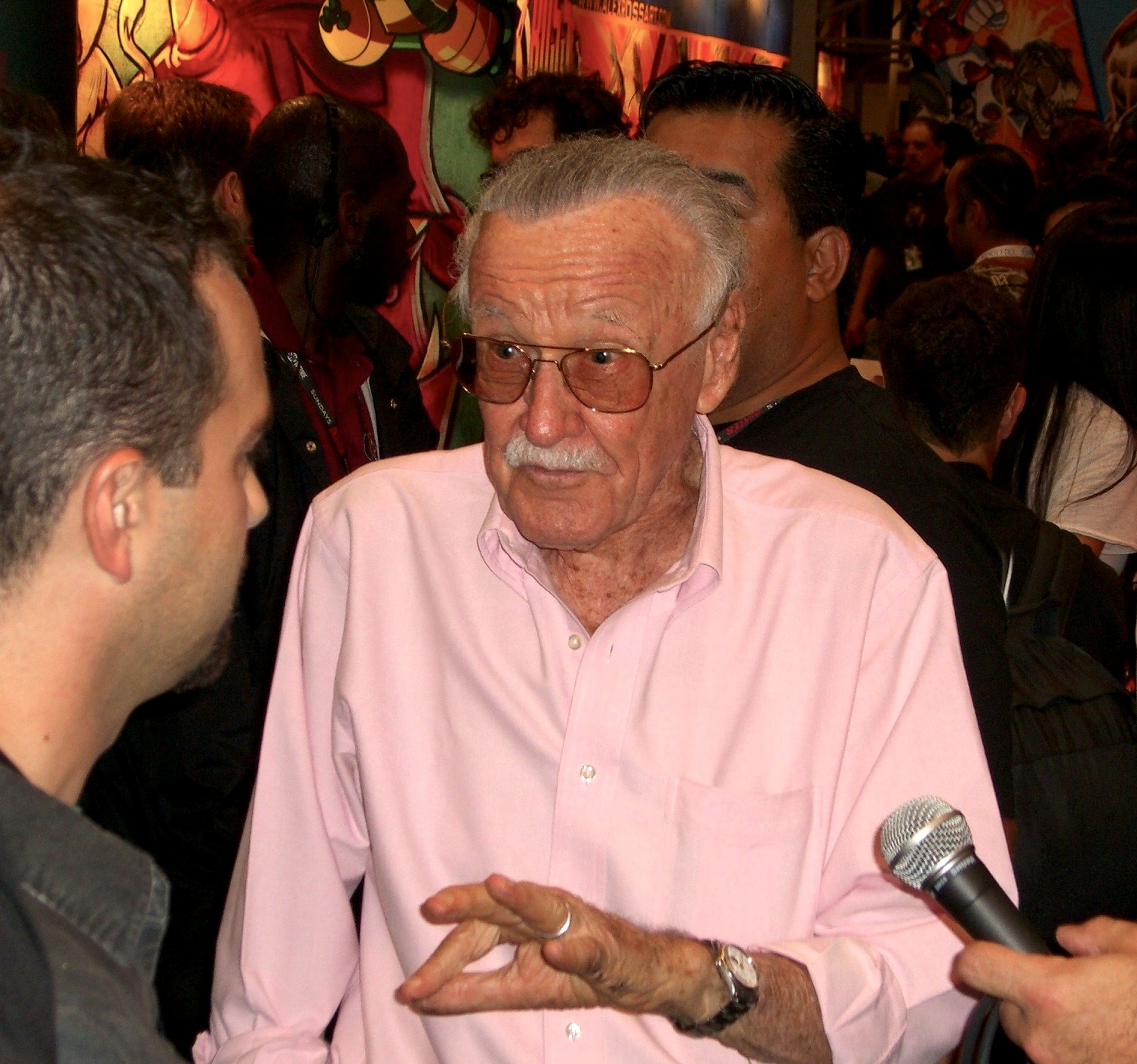 Comic book creator and media personality Stan Lee speaking to journalist Aaron Sagers while promoting Stan Lee's Kids Universe, his line of children's comics, at the 2011 New York Comic Con, October 14, 2011. This photo was created by Luigi Novi. It is not in the public domain, and use of this file outside of the licensing terms is a copyright violation.